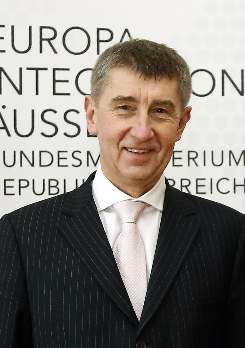 Bundesminister Sebastian Kurz trifft den tschechischen Vizepremier Andrej Babis. Wien, 13.02.2014, Foto: Dragan Tatic